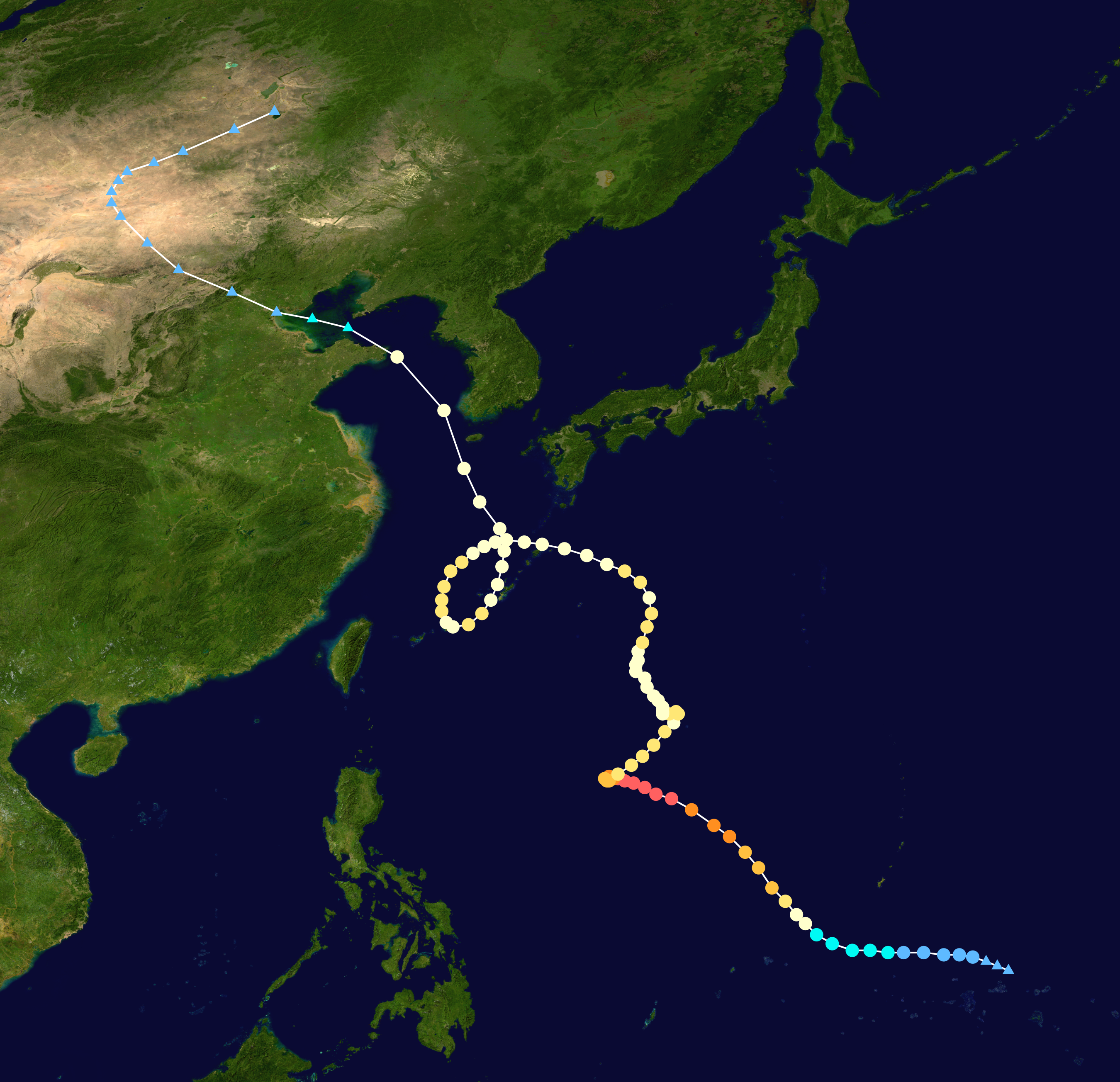 Track map of Typhoon Rita of the 1972 Pacific typhoon season. The points show the location of the storm at 6-hour intervals. The colour represents the storm's maximum sustained wind speeds as classified in the Saffir–Simpson hurricane wind scale (see below), and the shape of the data points represent the nature of the storm, according to the legend below. Saffir–Simpson hurricane wind scale Tropical depression≤38 mph≤62 km/h Category 3111–129 mph178–208 km/h Tropical storm39–73 mph63–118 km/h Category 4130–156 mph209–251 km/h Category 174–95 mph119–153 km/h Category 5≥157 mph≥252 km/h Category 296–110 mph154–177 km/h Unknown Storm typeTropical cycloneSubtropical cycloneExtratropical cyclone / Remnant low / Tropical disturbance